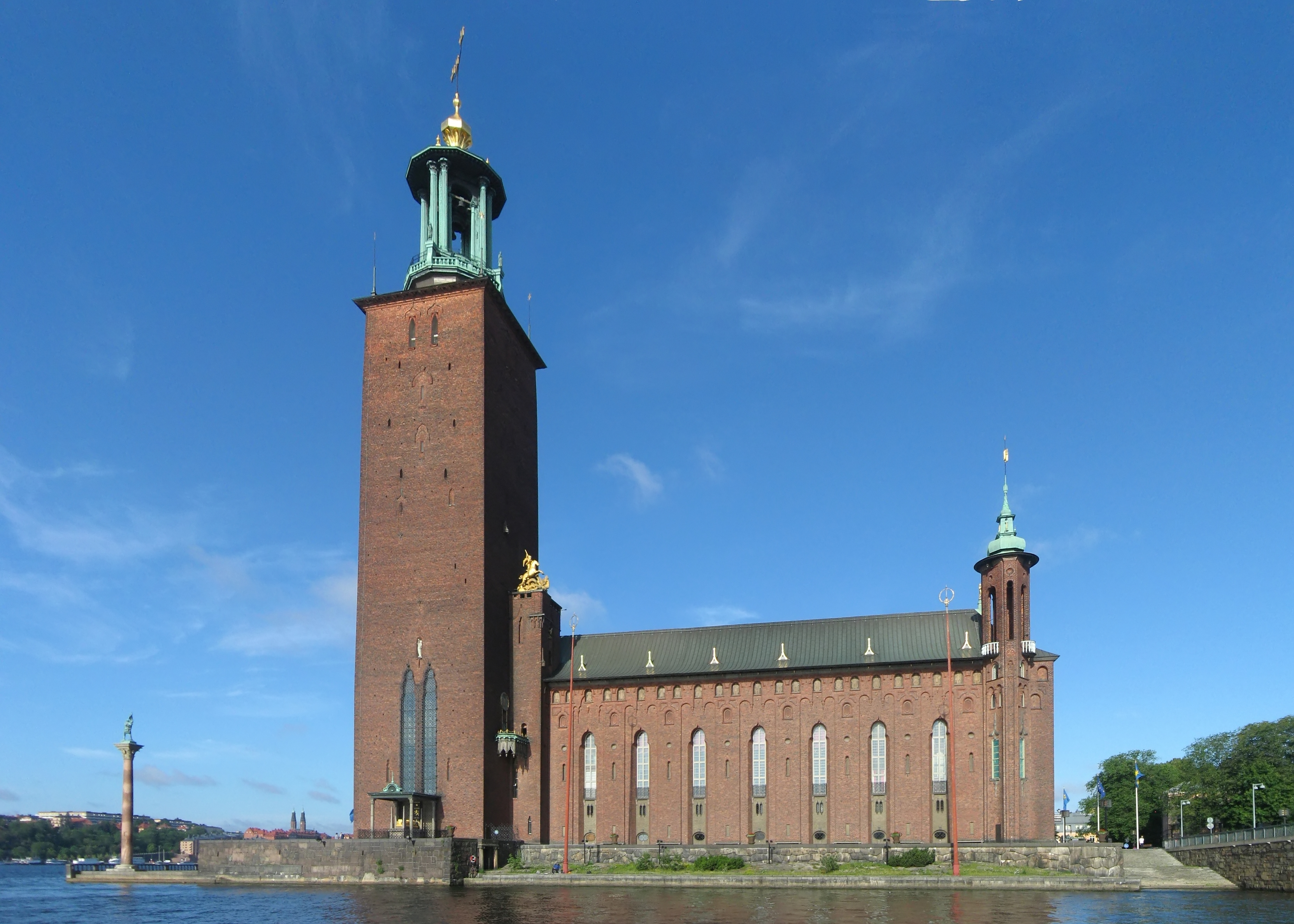 Stockholm City Hall, East-side view as seen from the tour boat berth between Stadshusbron and Centralbron. Five hand hold photos taken with a Canon DIGITAL IXUS 800 IS camera stitched using Hugin, cropped in GIMP and color curve adjusted. Noise reduced in Noiseware.